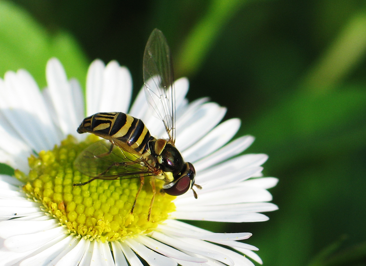 Allograpta obliqua. I've always loved the beauty of the hoverfly, and I'm very happy about getting this shot. I just happened to be in the right place at the right time. I was considering the daises for photo possibilities, when I noticed this guy hovering. Two shots was all I got (no time for lens or setting adjustments) - the other one was junk.